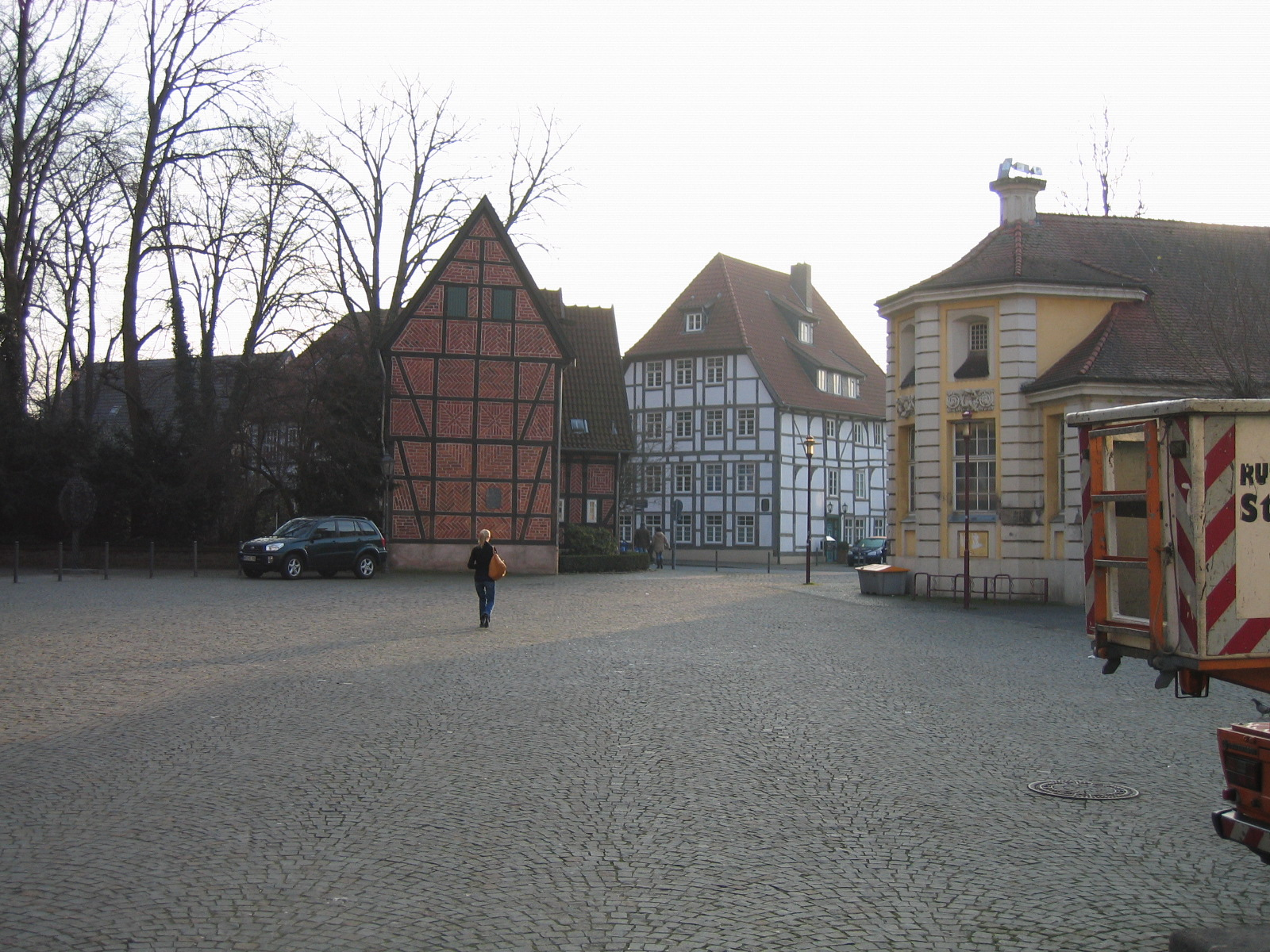 Place of Herford cathedral in Herford, District of Herford, North Rhine-Westphalia, Germany.